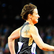 Final of the 100 metres women T42. at the 2012 papralympics in London. She was beaten to silver by Martina Caironi (obscured), Jana Schmidt at rear